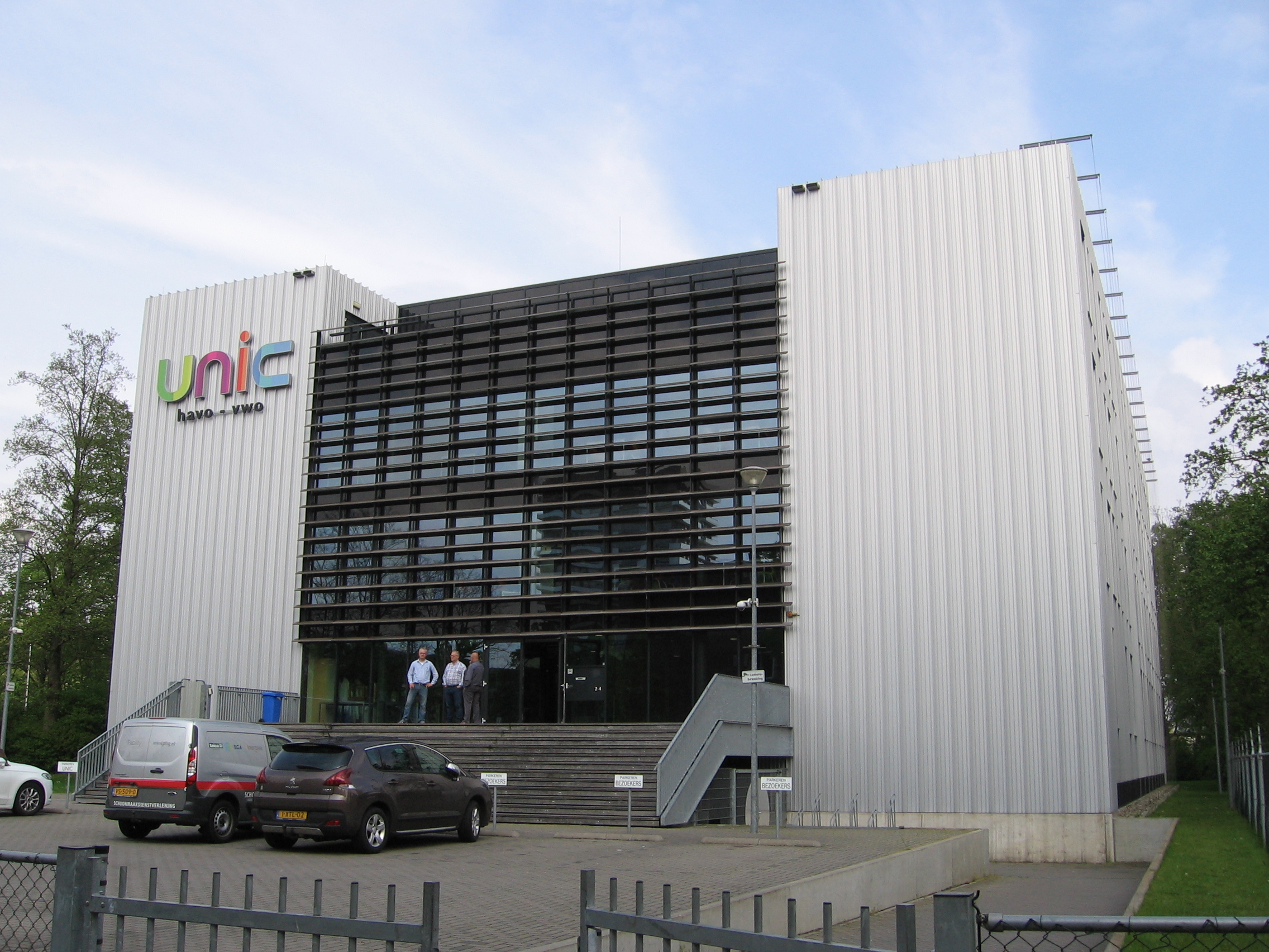 UNIC secondary school for havo and vwo, Van Bijnkershoeklaan 2, Utrecht (NL)